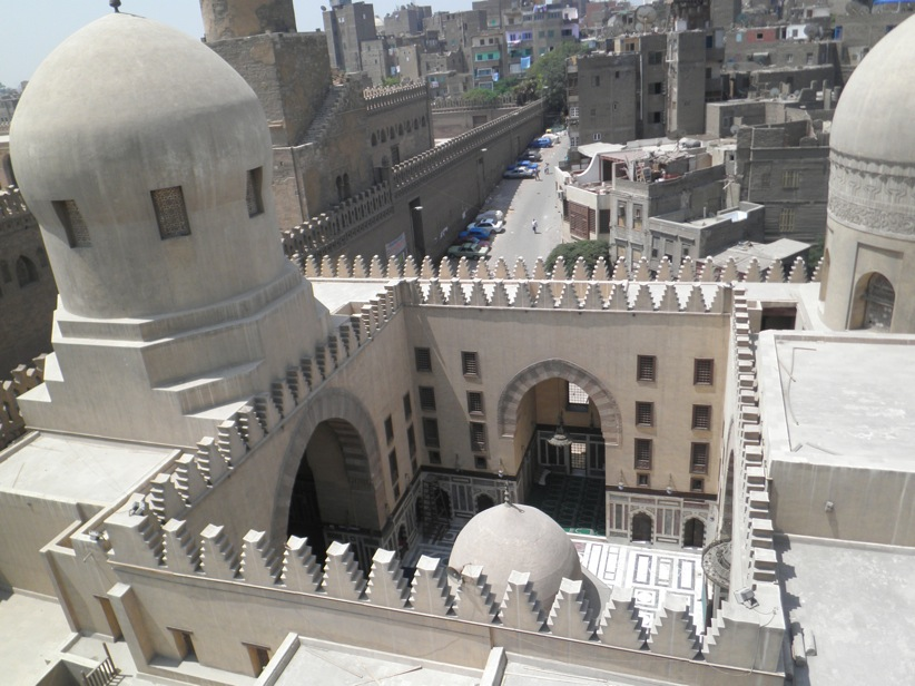 view from the minaret into the courtyard of the tomb Madrasa of Emir Sarghitmish